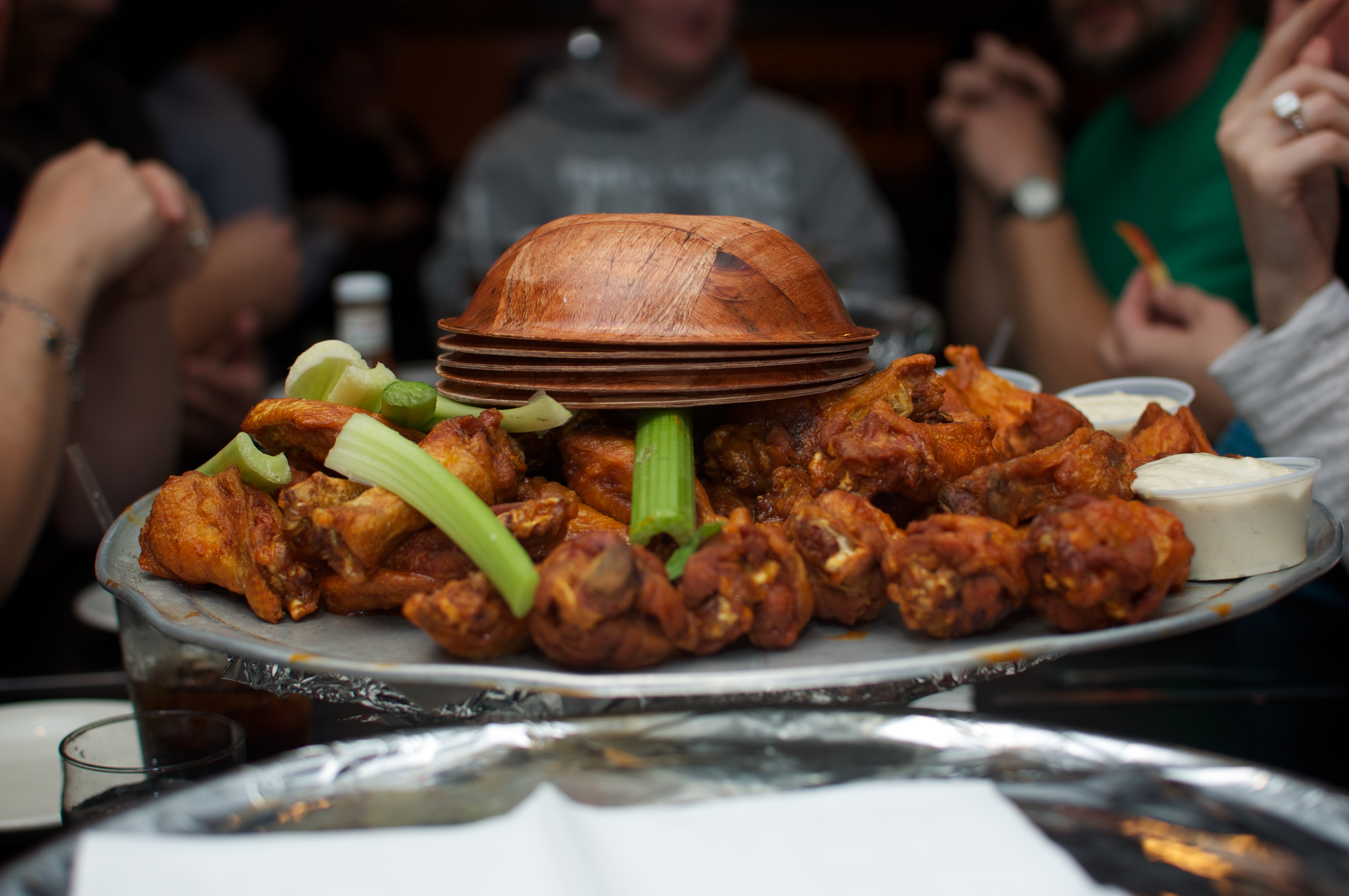 A bowl of chicken (Buffalo) wings and celery.